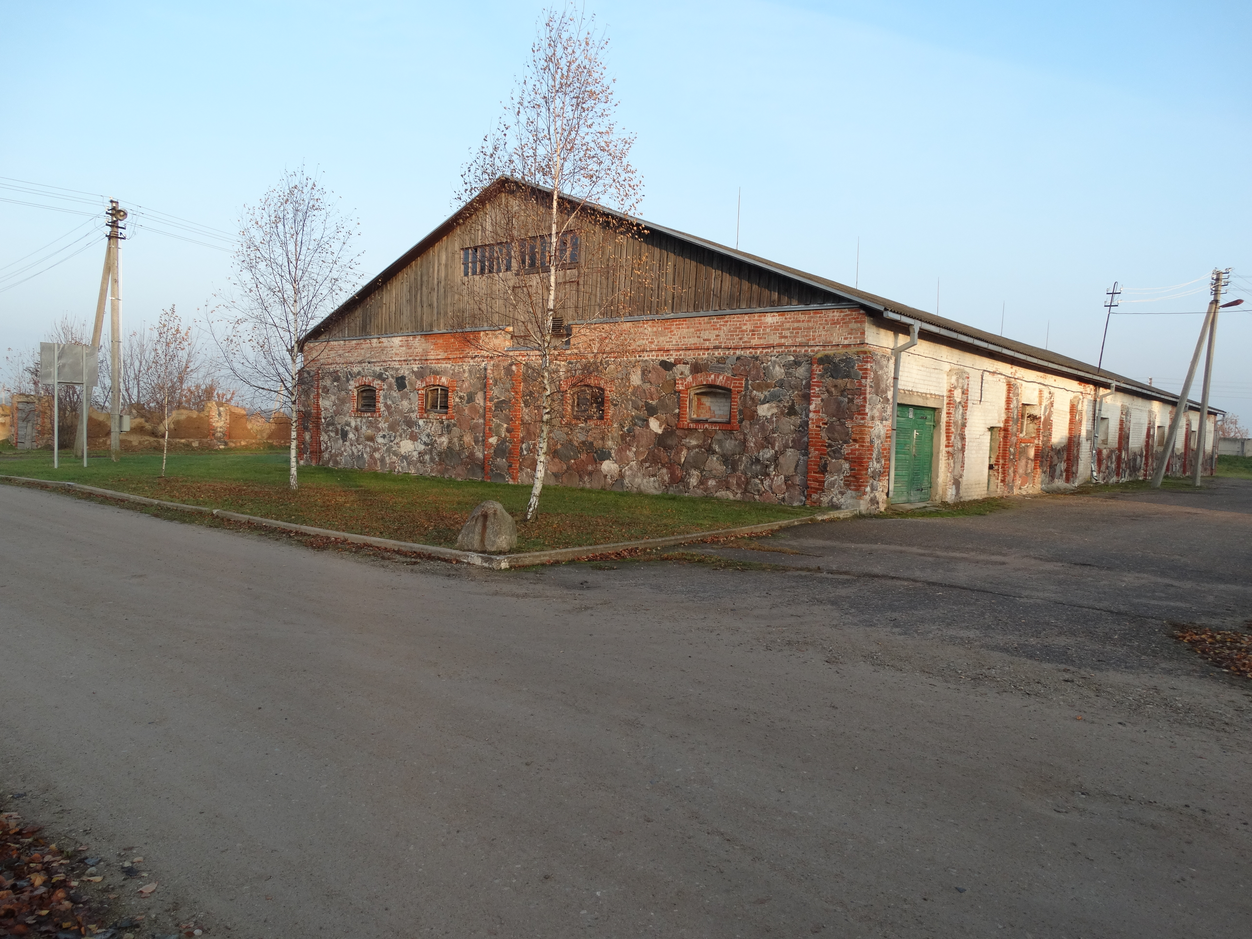 Former manor, Lavėnai, Pasvalys district, Lithuania